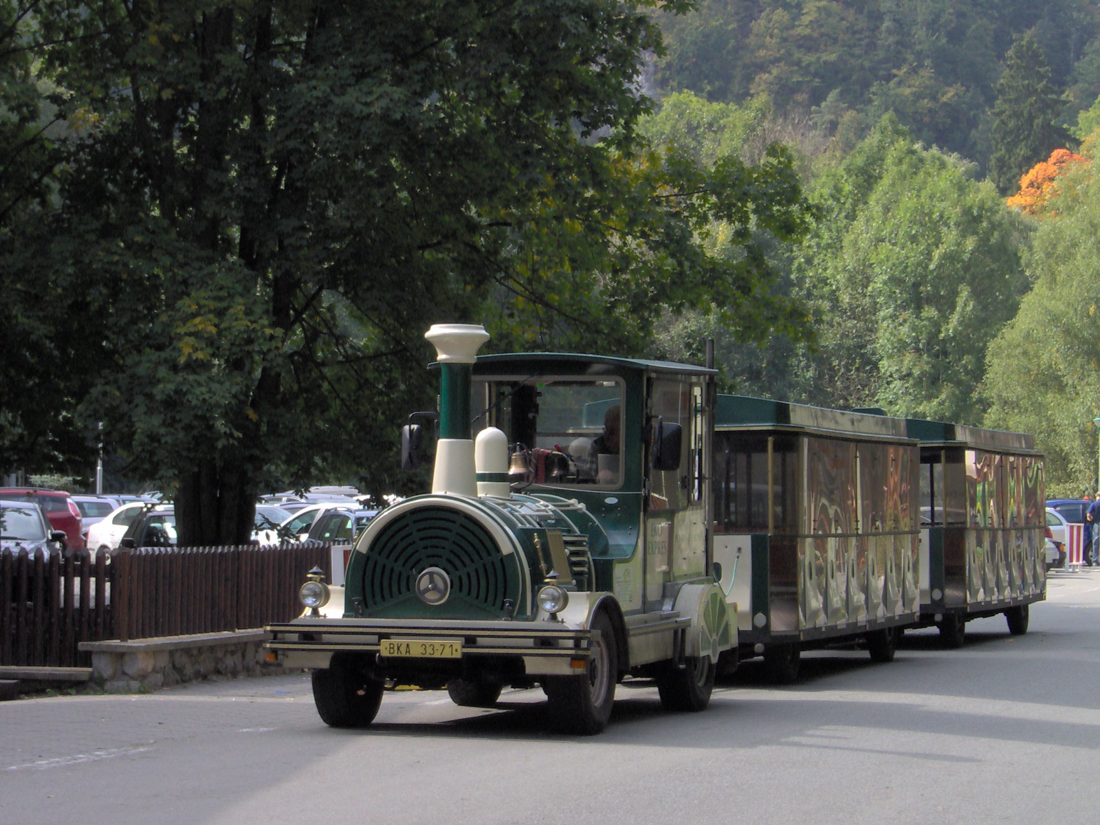 Trackless train close to Skalní mlýn, Moravian Karst